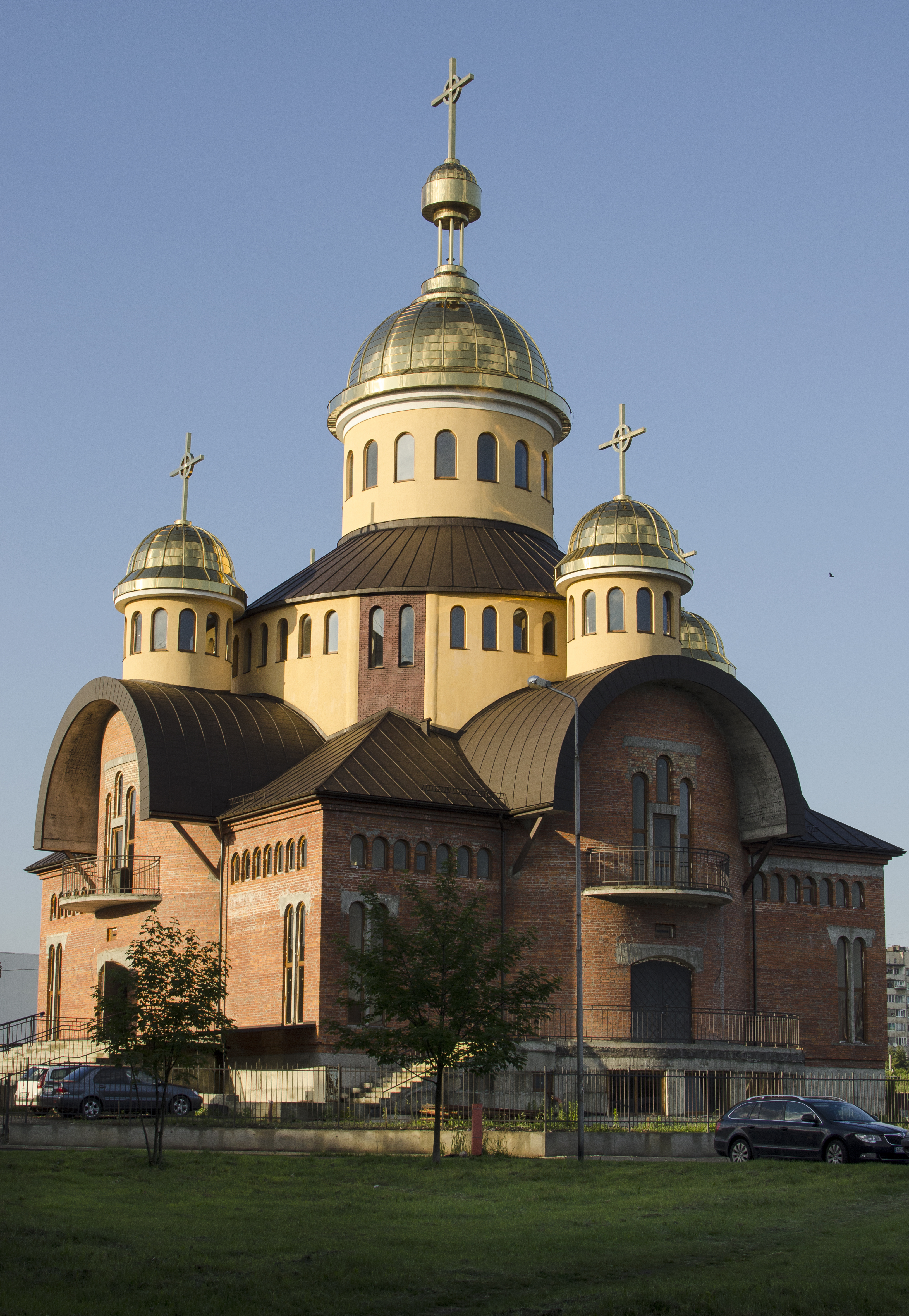 Church of Exaltation of the Holy Cross (Lviv, Ukraine)